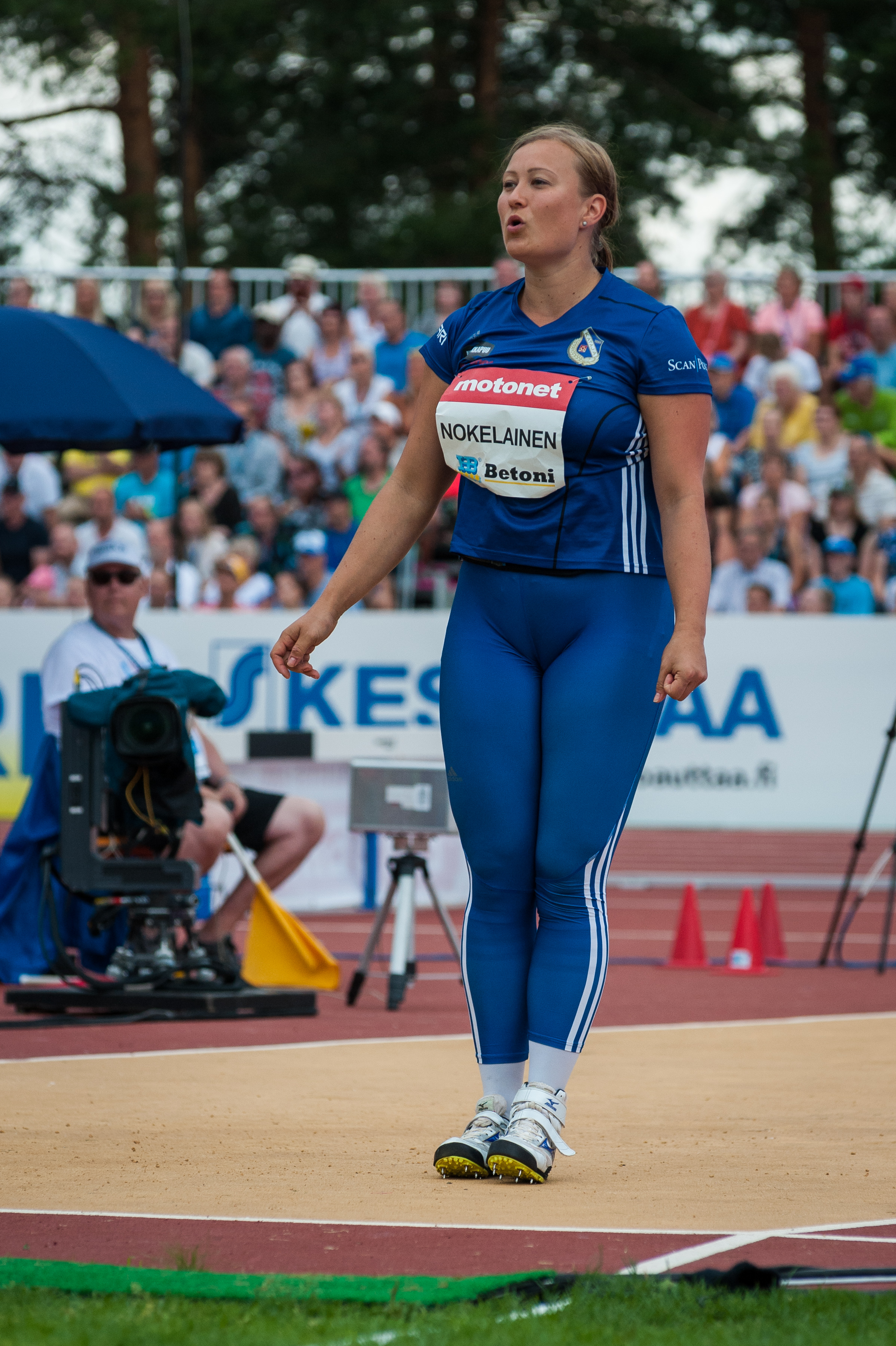 Women's javelin throw competition at the 2018 Kalevan Kisat, the Finnish championships in athletics, in Jyväskylä, Finland.